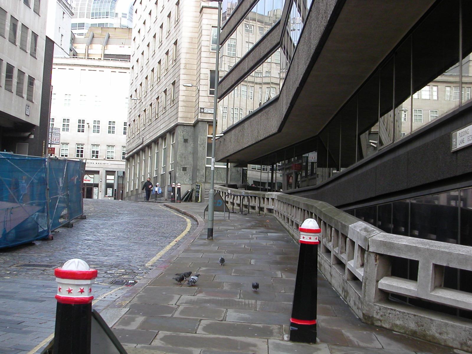 Pudding Lane looking northwards from the junction with Monument Street.